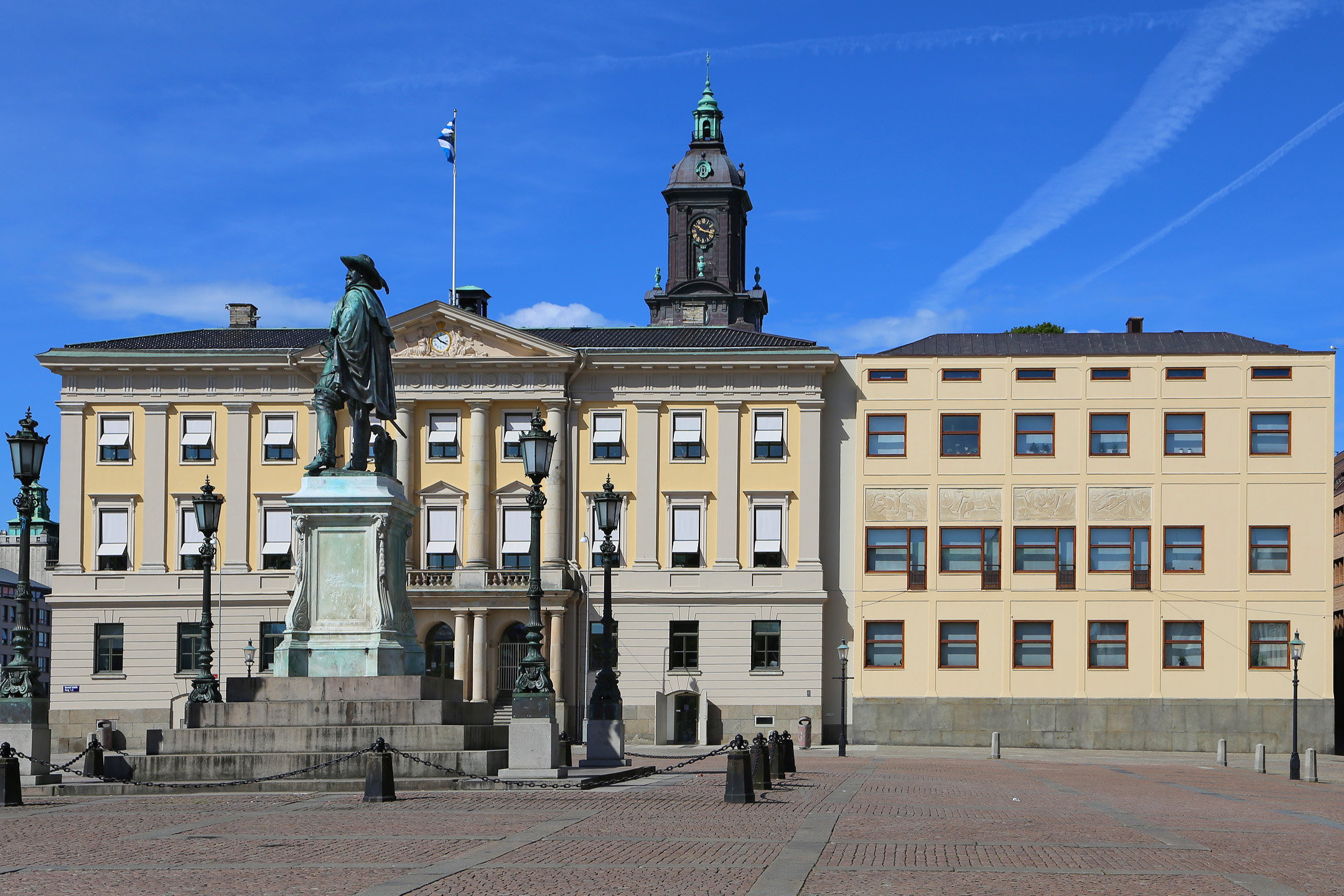 Gothenburg: Gustav Adolf Torg with a monument of the city founder. The square Gustav Adolf is the political center of Gothenburg with the old and new town hall and the house of the estates and stock exchange.